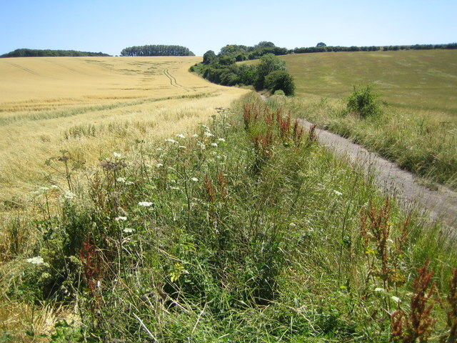 Stopsley Common The end of the tarmac lane from Butterfield Green.